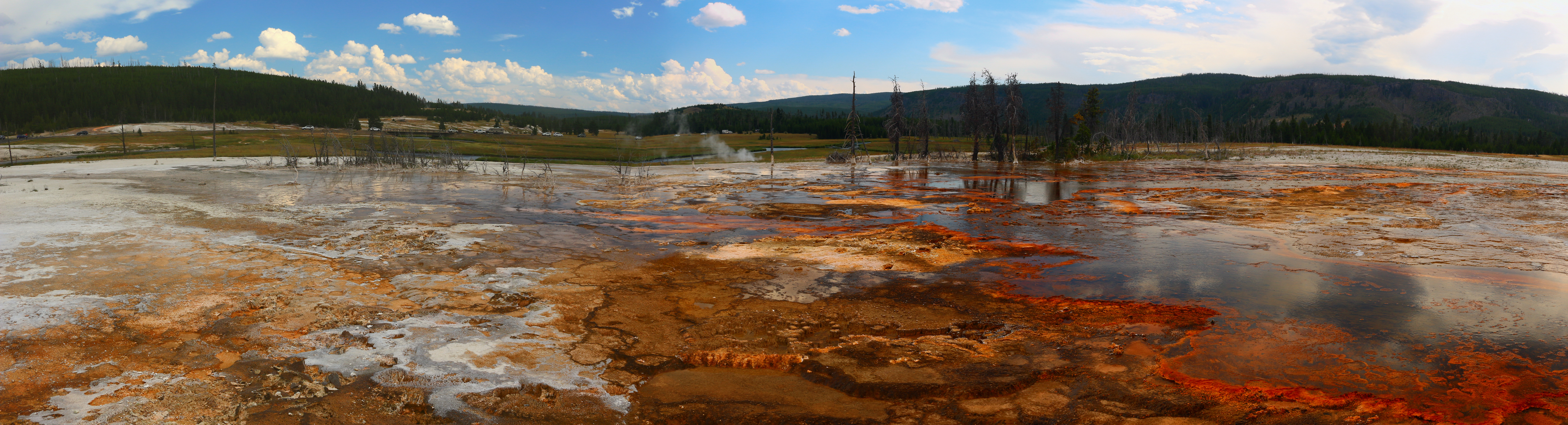 USA, Wyoming, Yellowstone National Park, panoramic